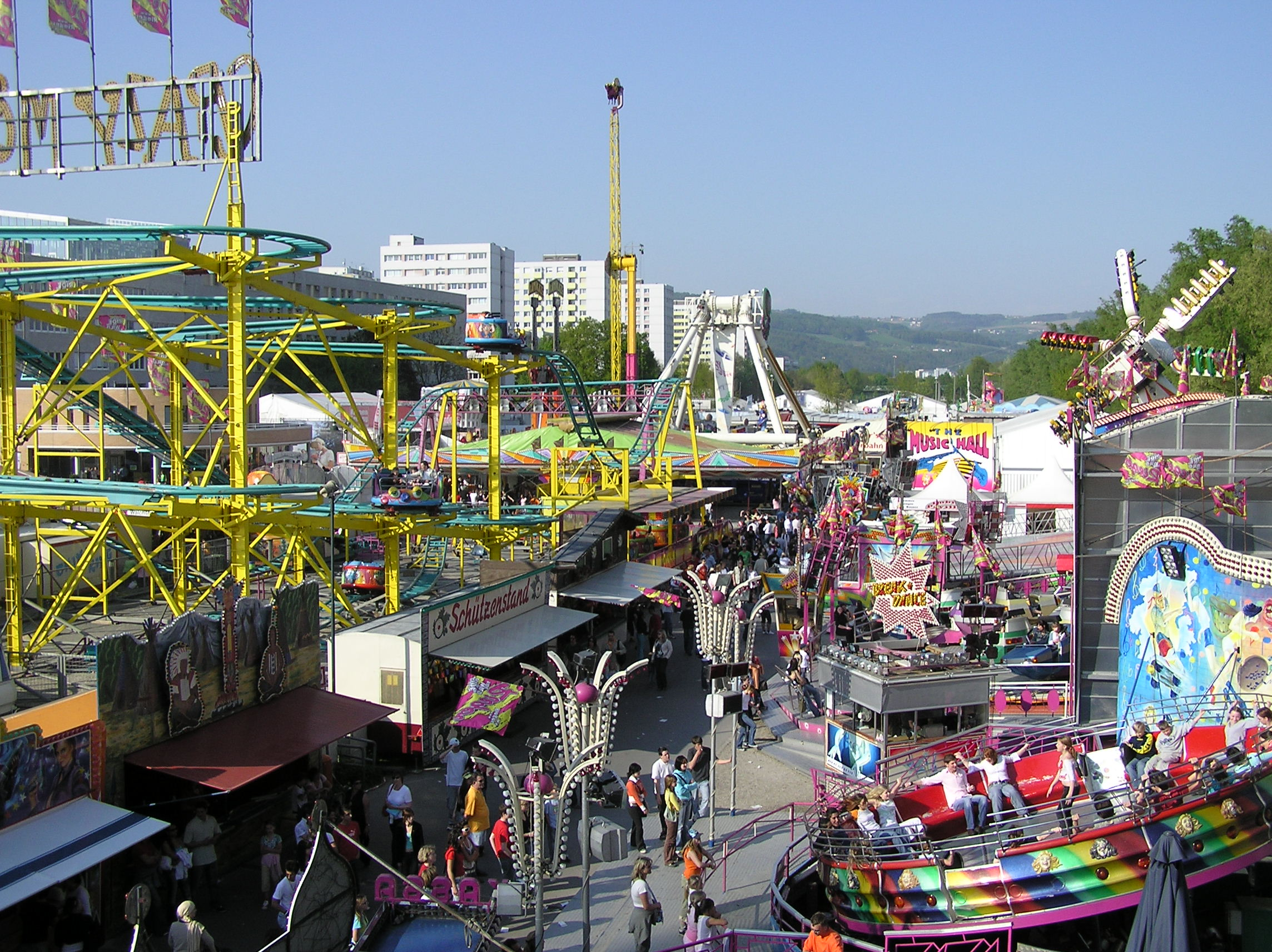 Urfahrmarkt Linz, Picture taken by myself, 2006-05-04